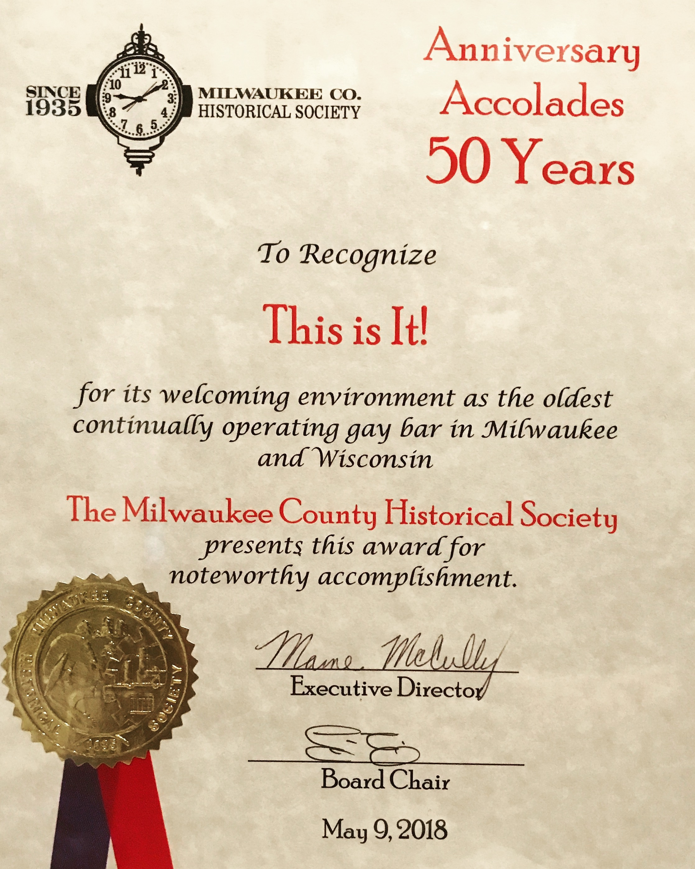 Plaque Face of 50th Anniversary Accolade